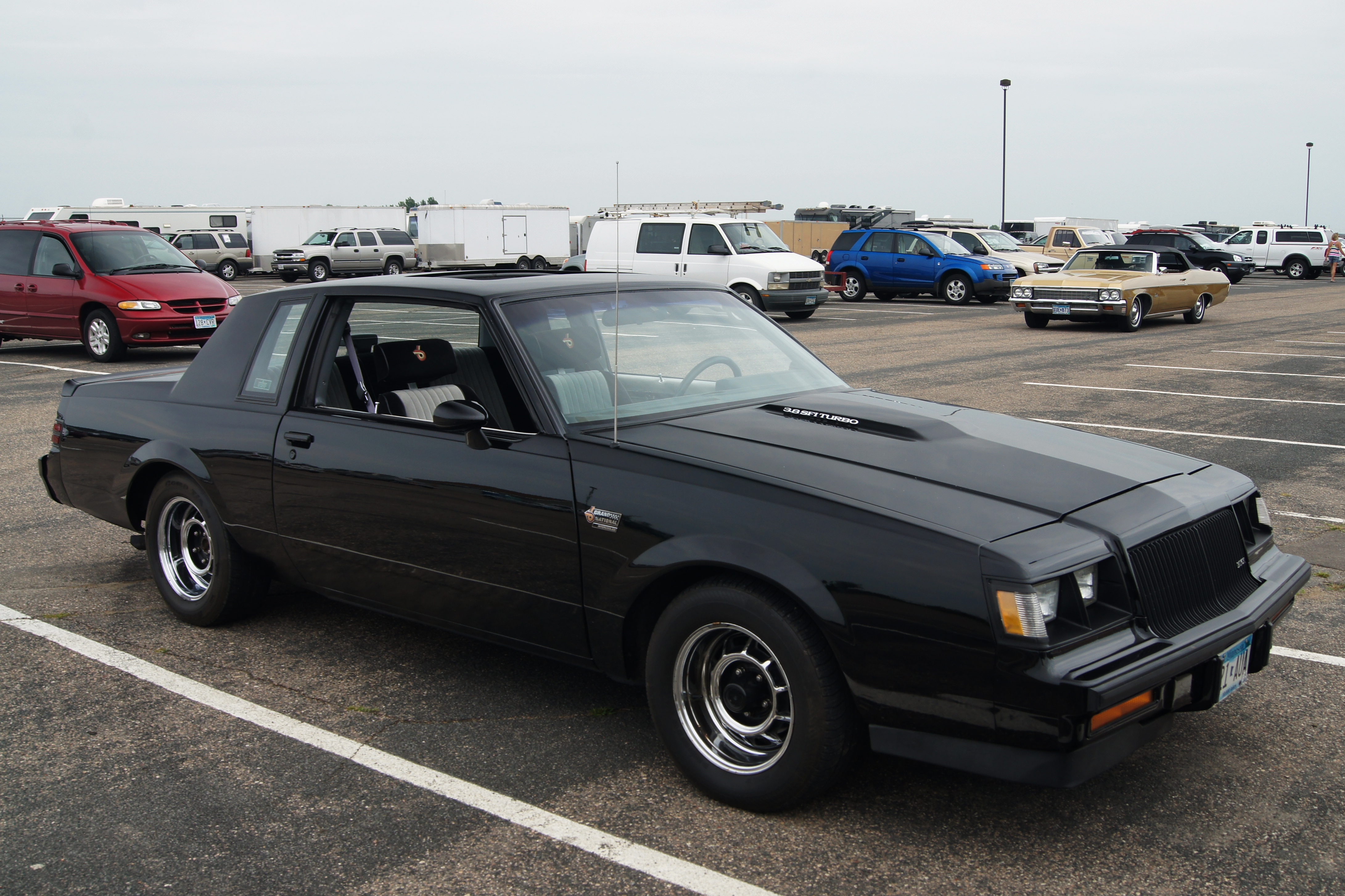 28th Annual New London to New Brighton Antique Car Run Lunch Stop Buffalo High School Buffalo Minnesota Mile 78.8 More Car Pictures